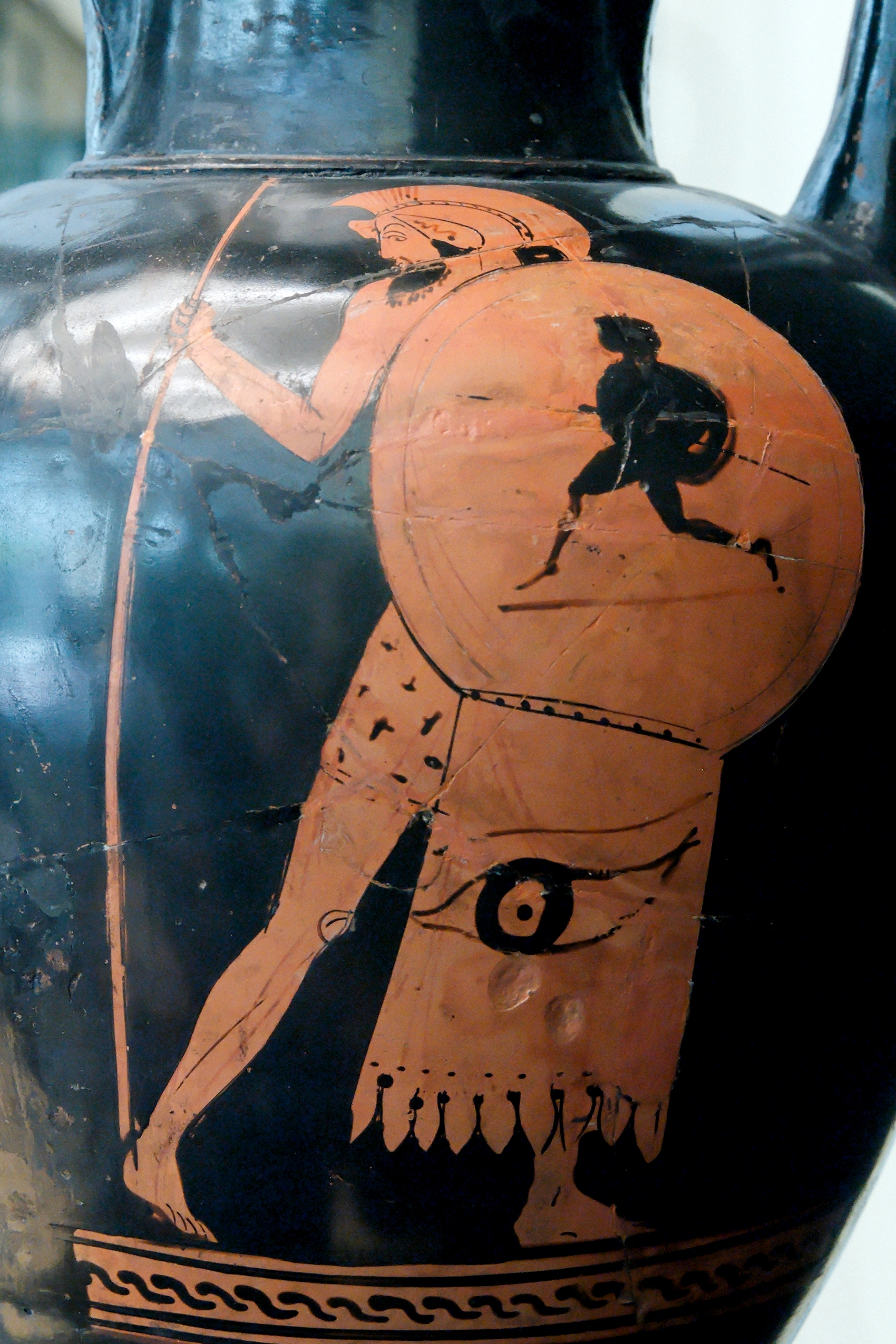 Warrior. Side B of an Attic red-figure amphora, ca. 460 BC.